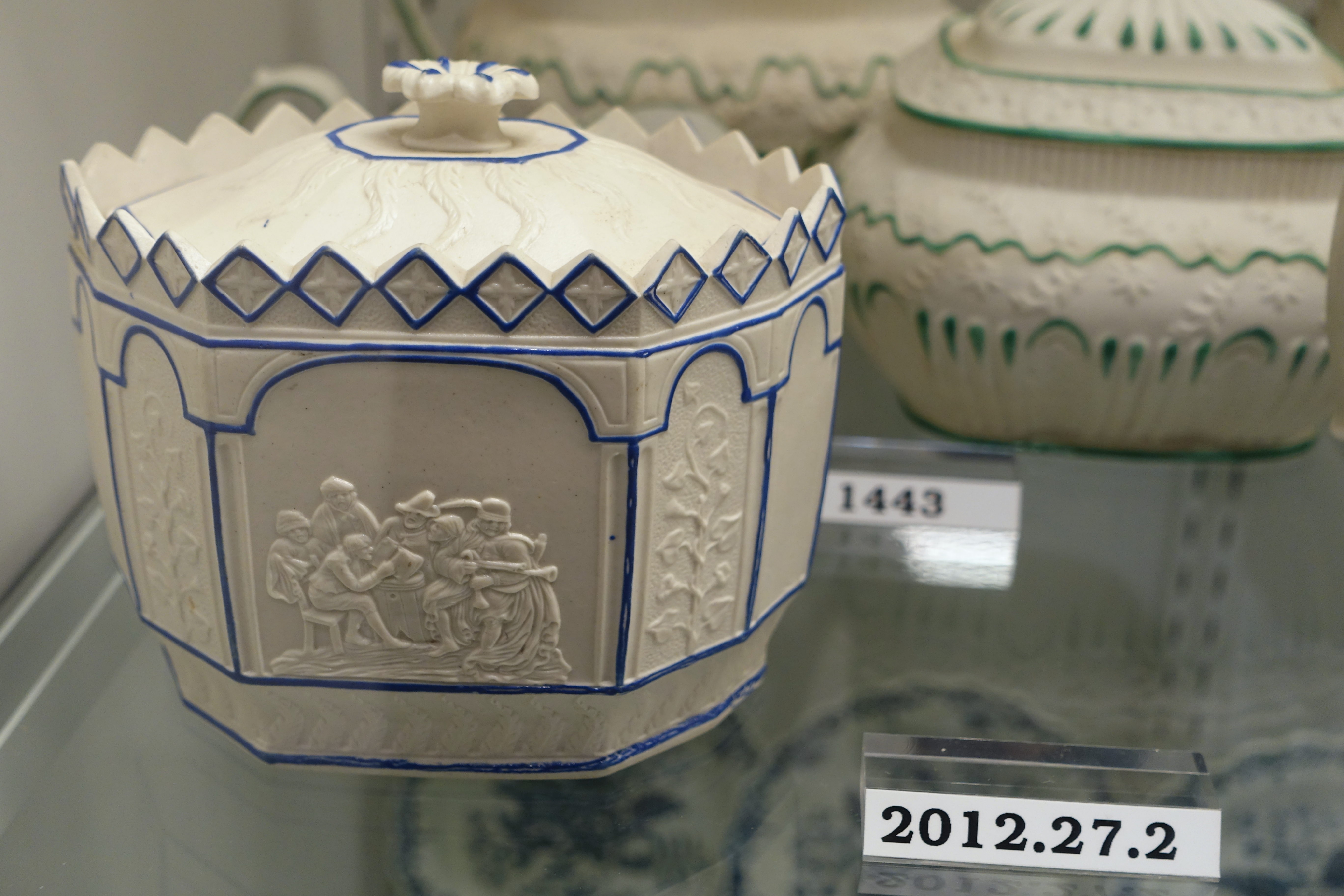 Exhibit in the Flynt Center of Early New England Life, Historic Deerfield - Deerfield, Massachusetts, USA.